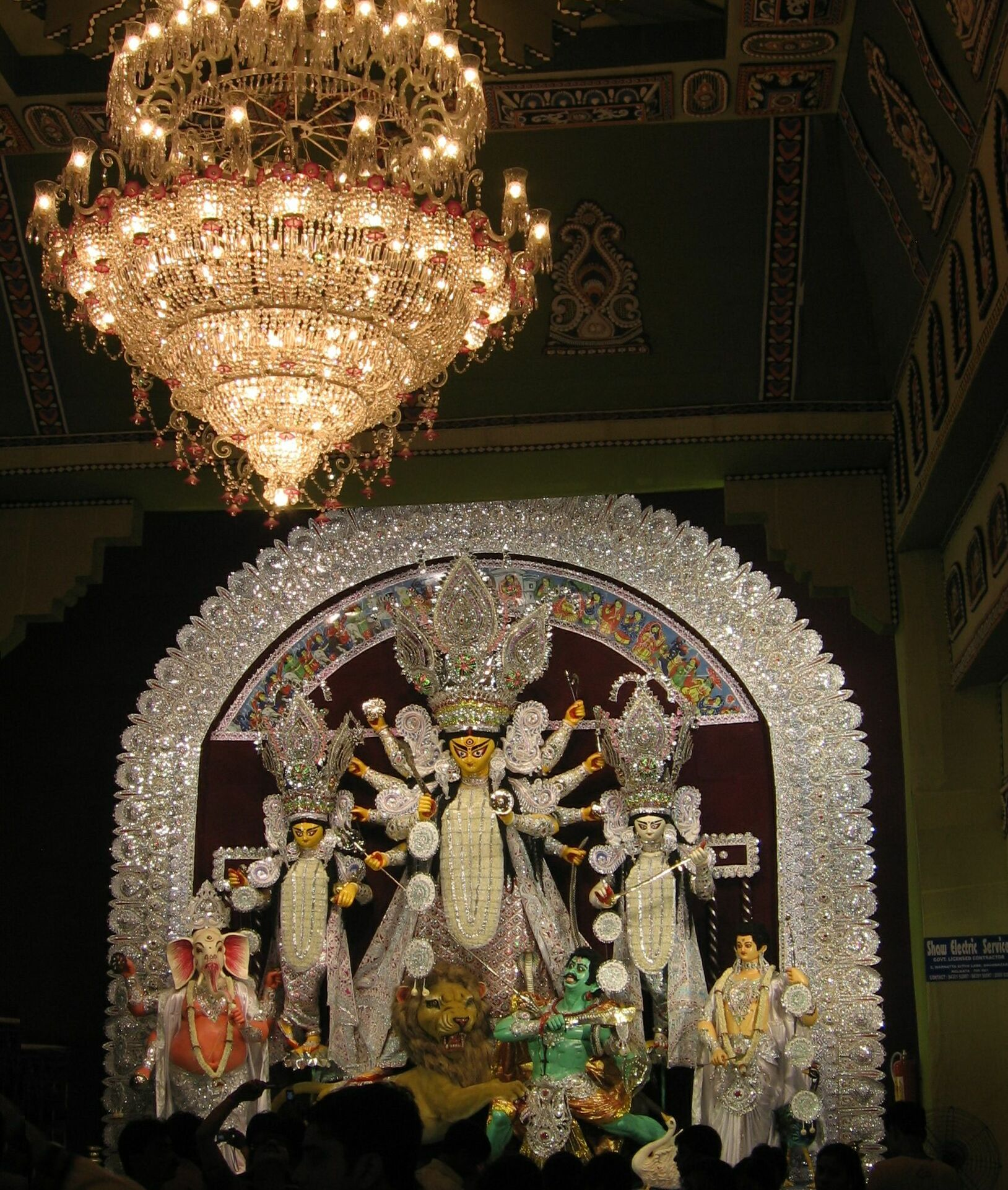 Traditional Durga idol from Baghbazar pandal 2007, with Durga and her four children on a single frame or paTa.